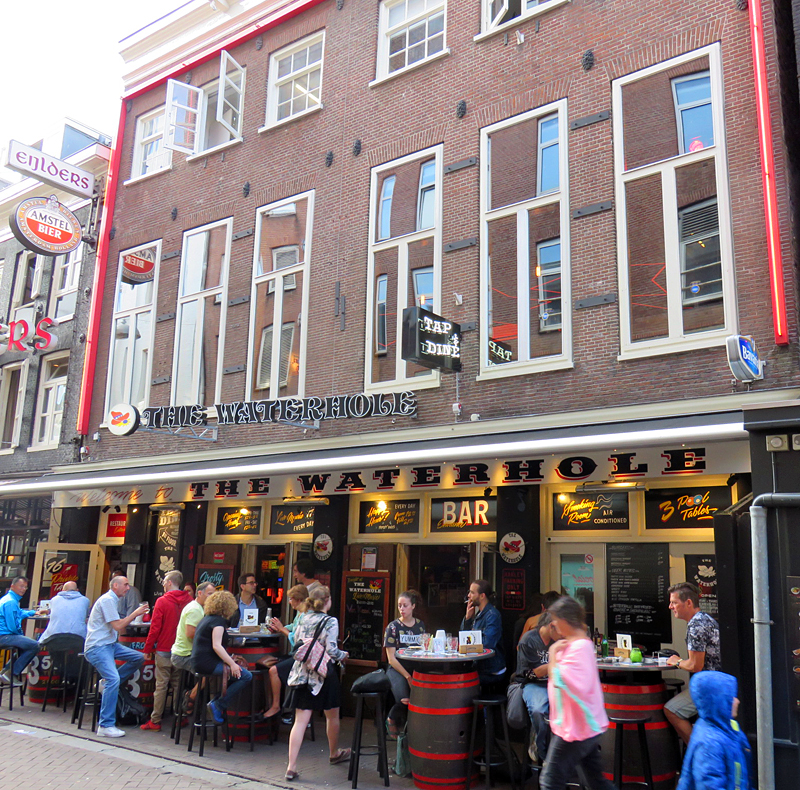 Korte Leidsedwarsstraat 49 in Amsterdam, nowadays a large bar, but from 1955 to 1978 this building housed "De Schakel", the very popular gay dancing of the Dutch gay rights organization COC.